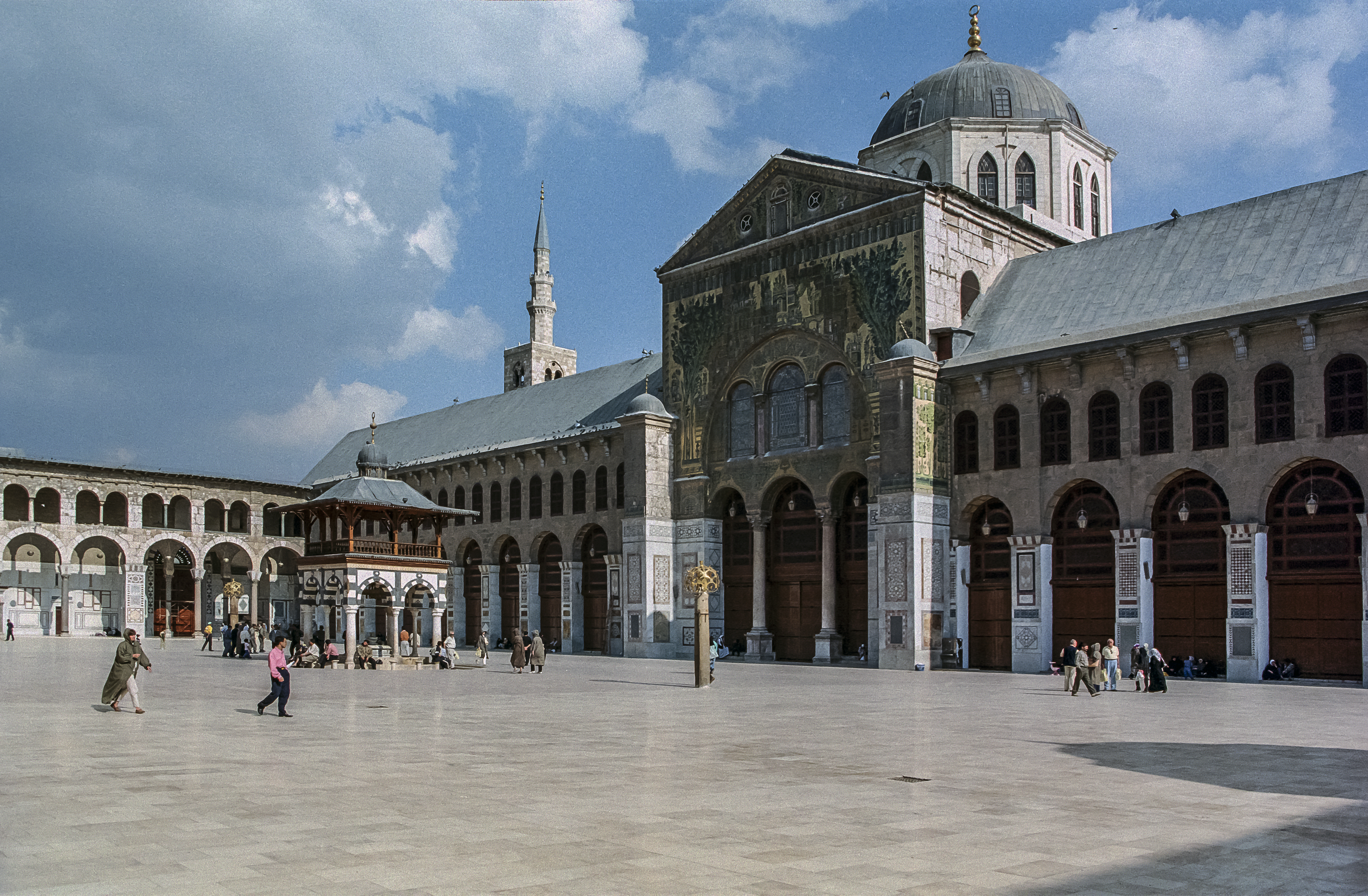 The Umayyad Mosque - The Dome of the Eagle (Qubbat Al-Nisr), Damascus